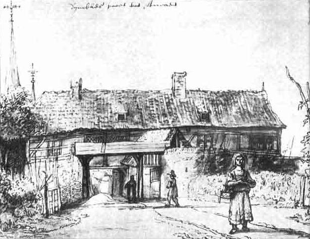 Dimbkesport in Anrath.